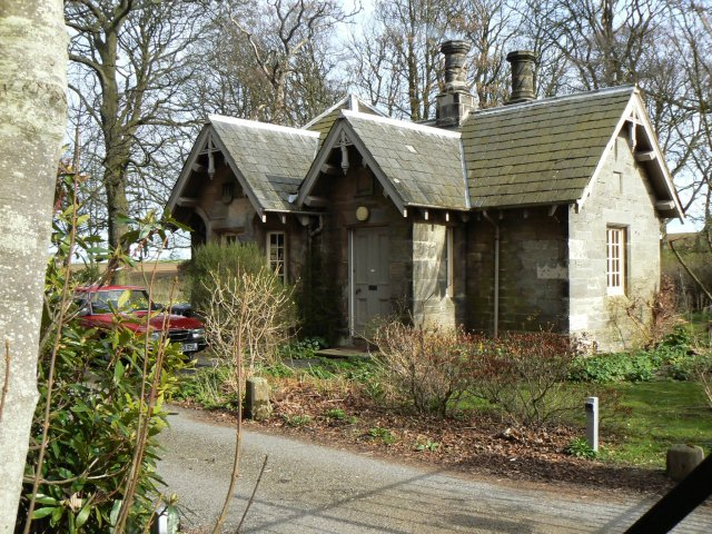 Balkaskie gatehouse The gatehouse at the main drive into Balkaskie Estate.